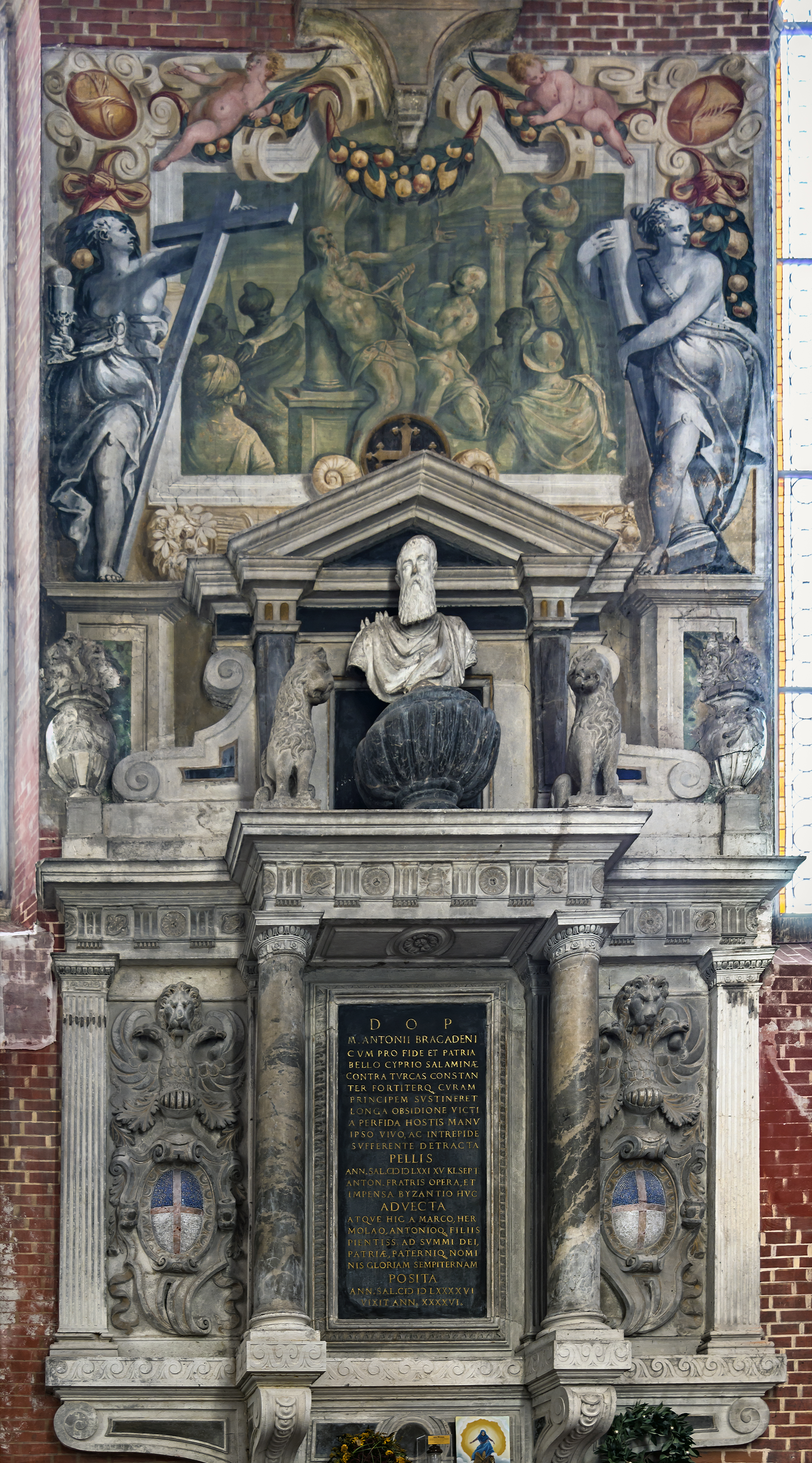 Santi Giovanni e Paolo, Venice. Right side of the nave; Marcantonio Bragadin's monument; The monument is from Vincenzo Scamozzi, the bust by Alessandro Vittoria.